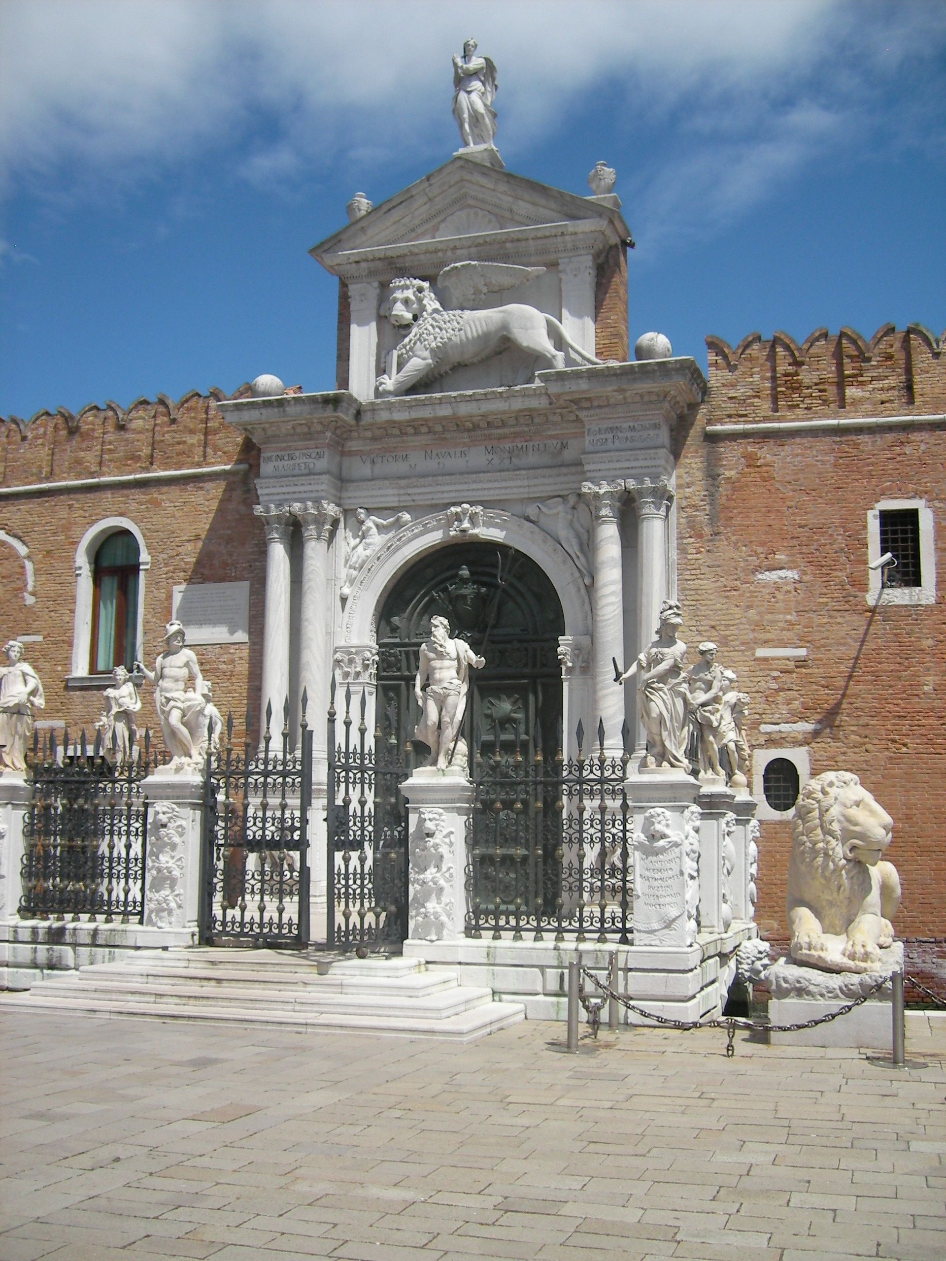 Venice